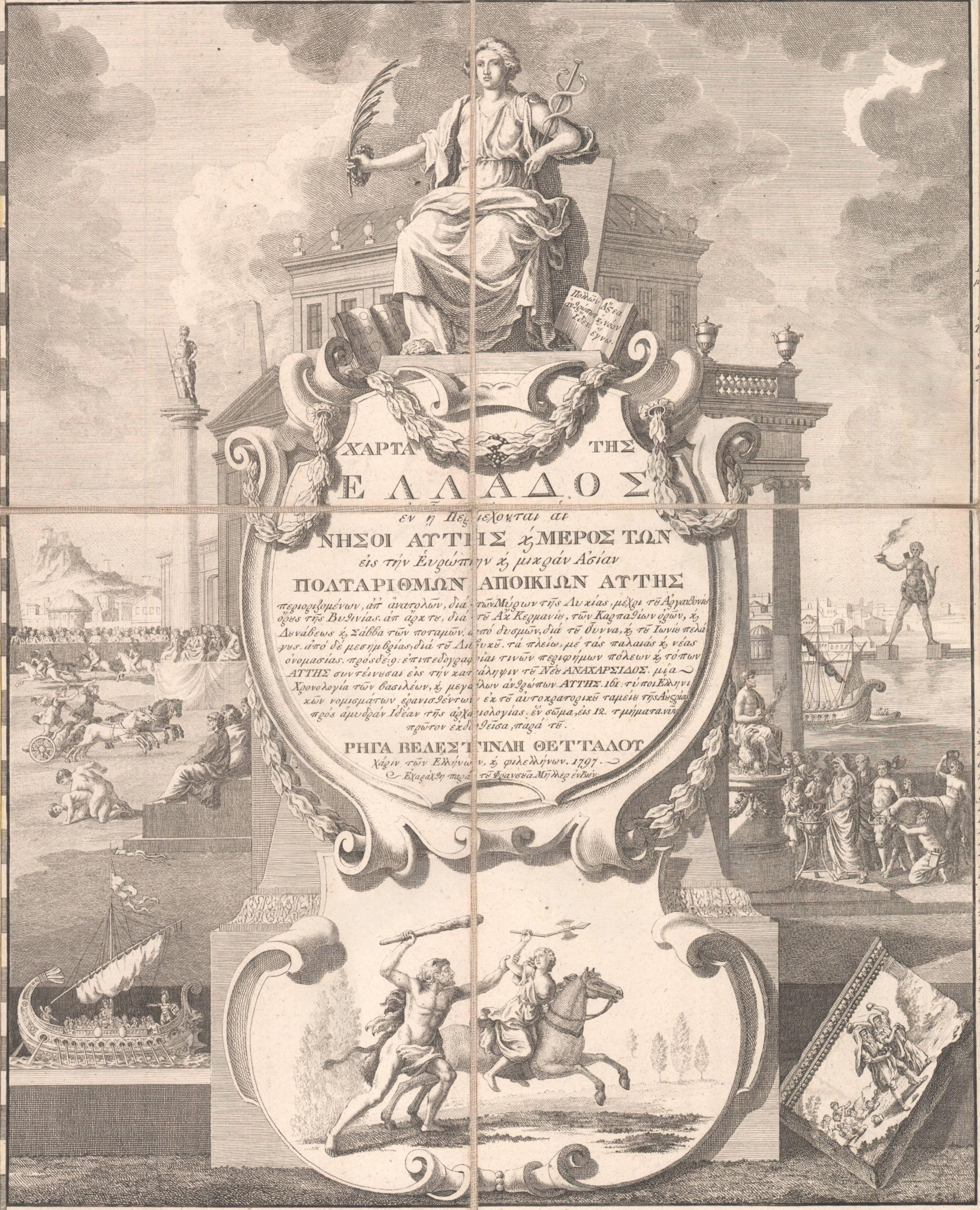 (Part 4 - Main illustration and title) Charta of Greece / Rigas Charta, Rigas Velestinlis, 1797